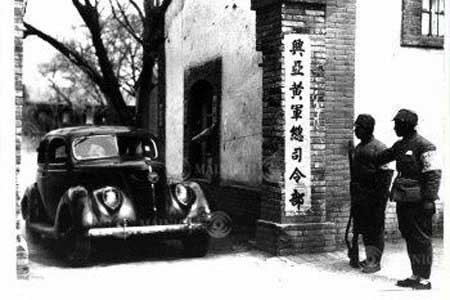 Xingyahuangjun Army Headquarter